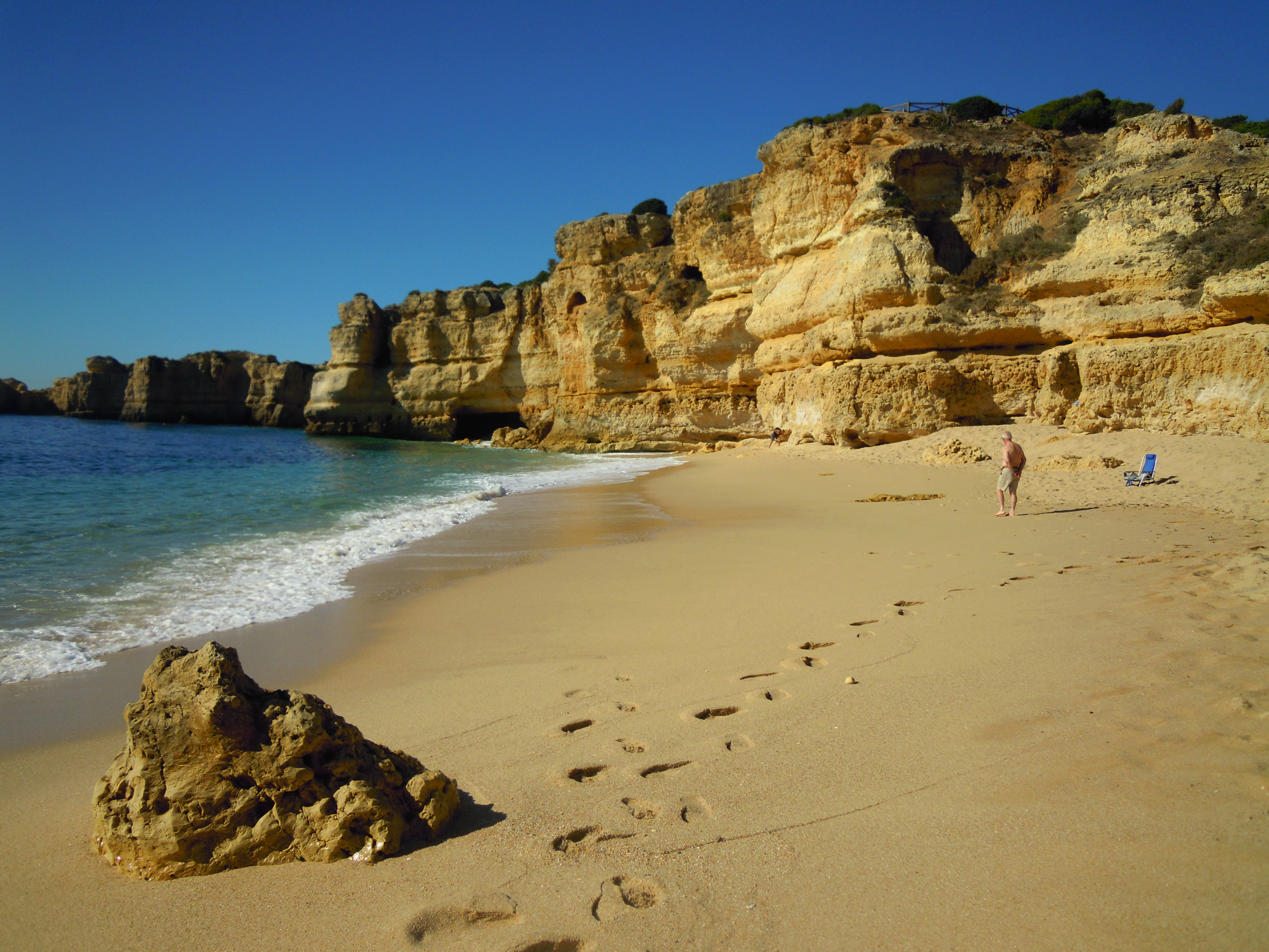 Looking west on Praia da Coelha, Sesmarias village near Albufeira, Algarve, Portugal